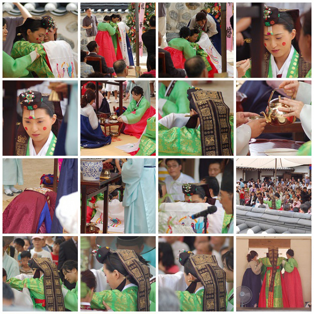 Korean traditional wedding at Korean Folk Village in Yongin, South Korea